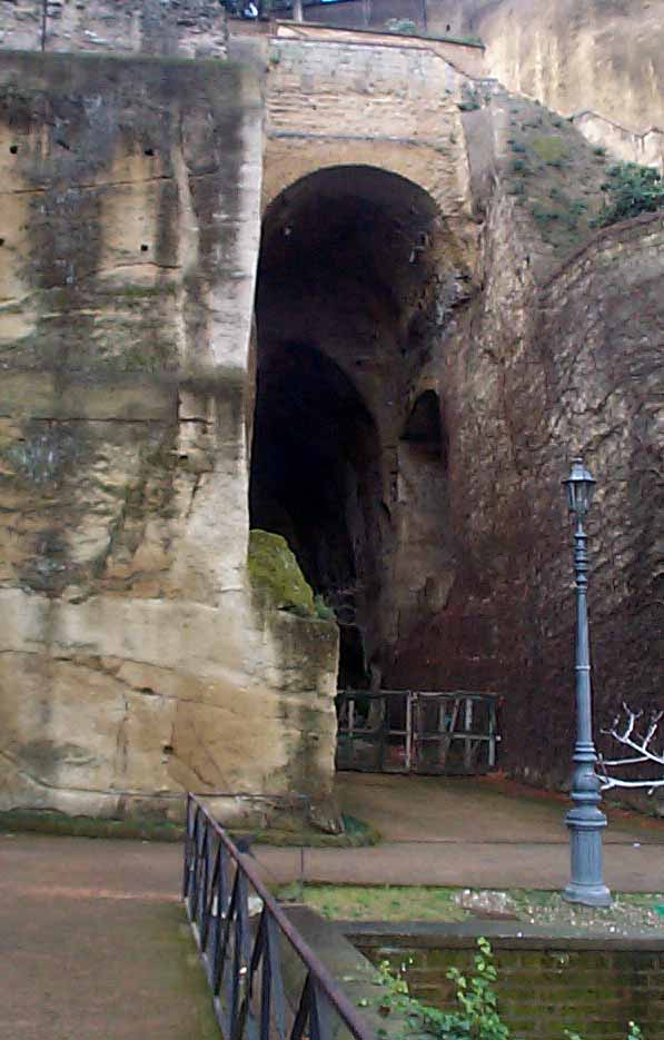 Entrance to the Crypta Neapolitana from the Naples side.